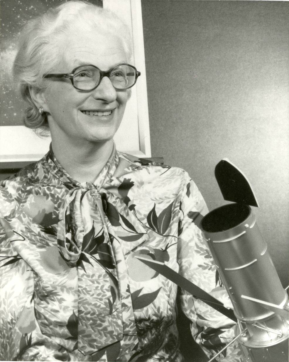 Dr Nancy Grace Roman with model of what would become Hubble Space Telescope